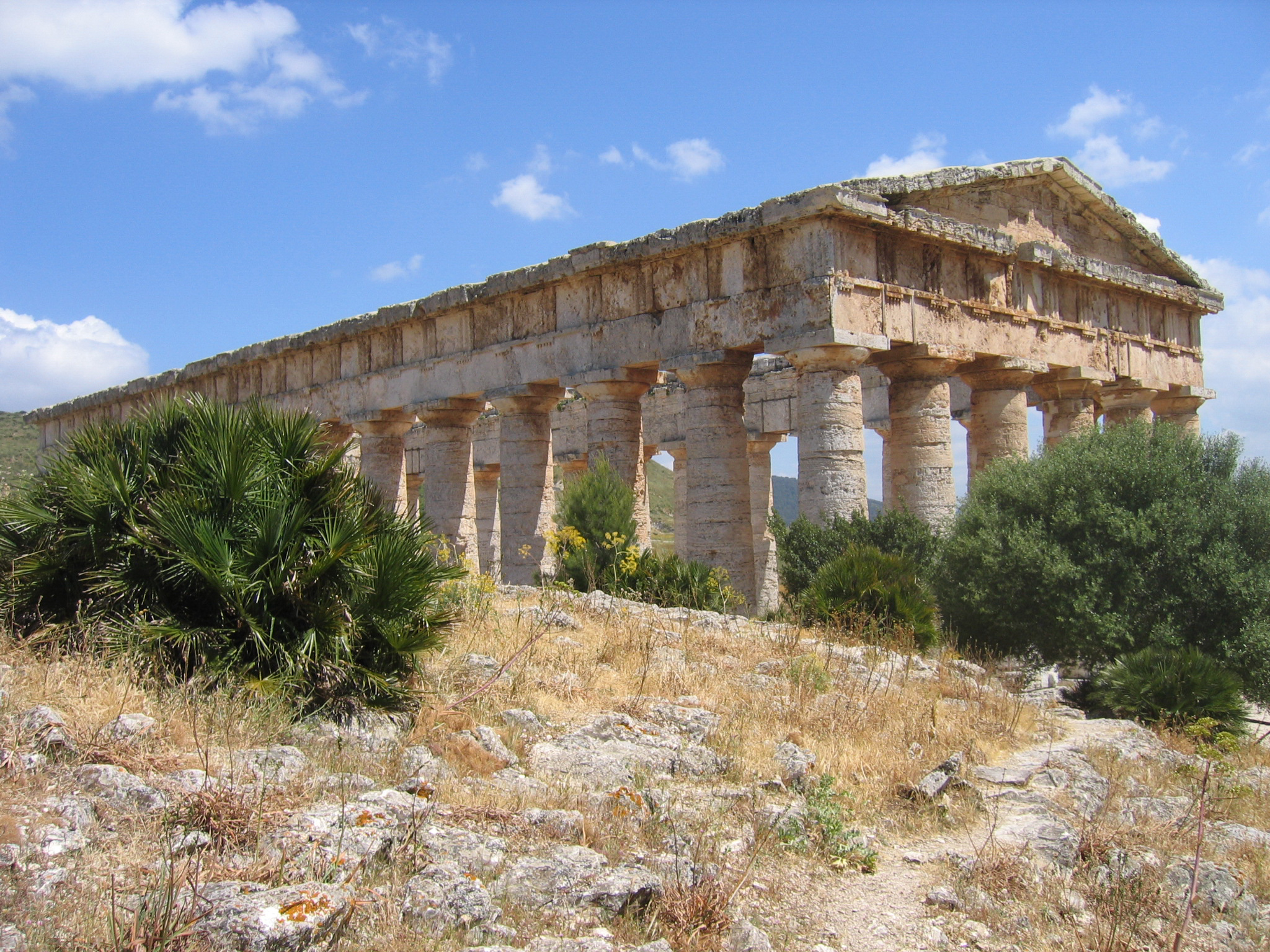 Segesta, Sicili, Temple of Hera, West Greek Architecture